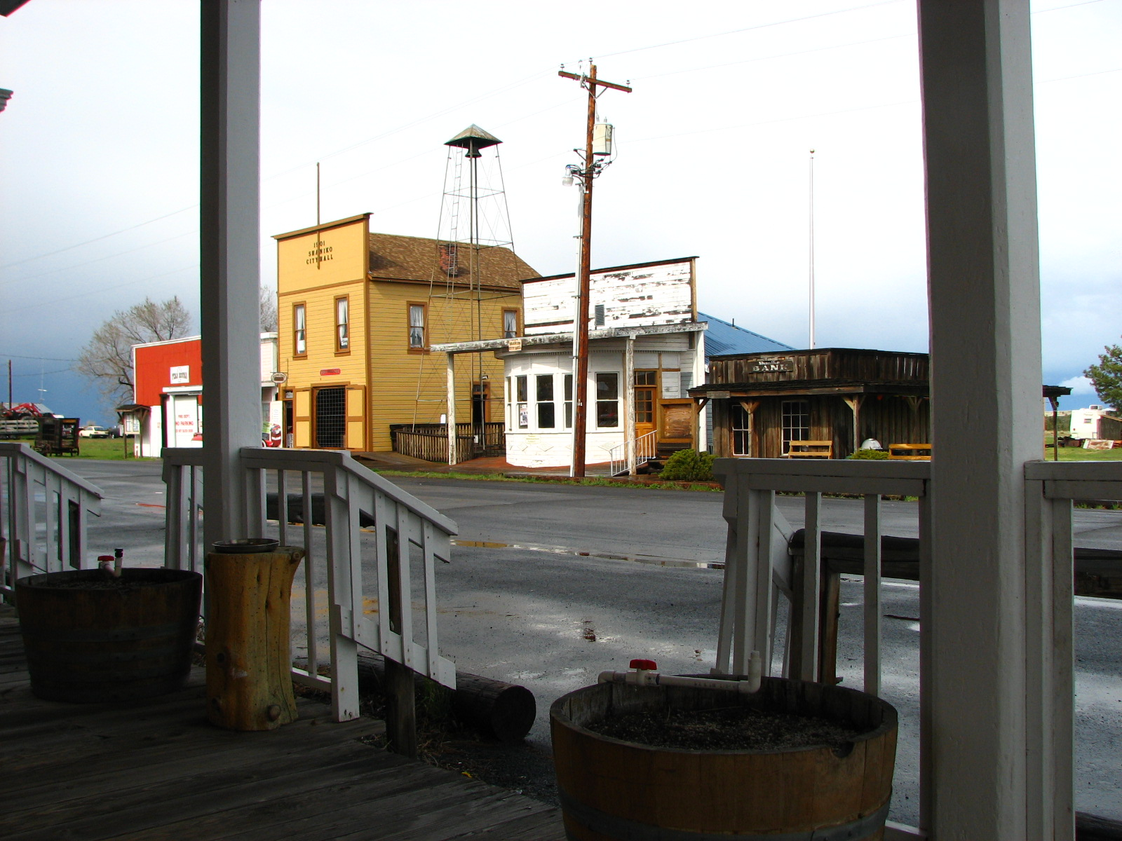 View east across E Street from the porch of the Shaniko Hotel (the historic Columbia Southern Hotel) in Shaniko, Oregon, United States, including the current City Hall (white building at center).